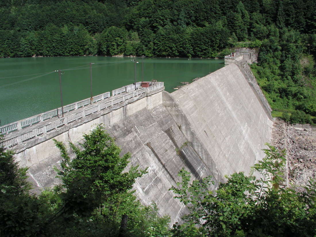 Dam on the river Tereblya (Transcarpathian region, Ukraine)